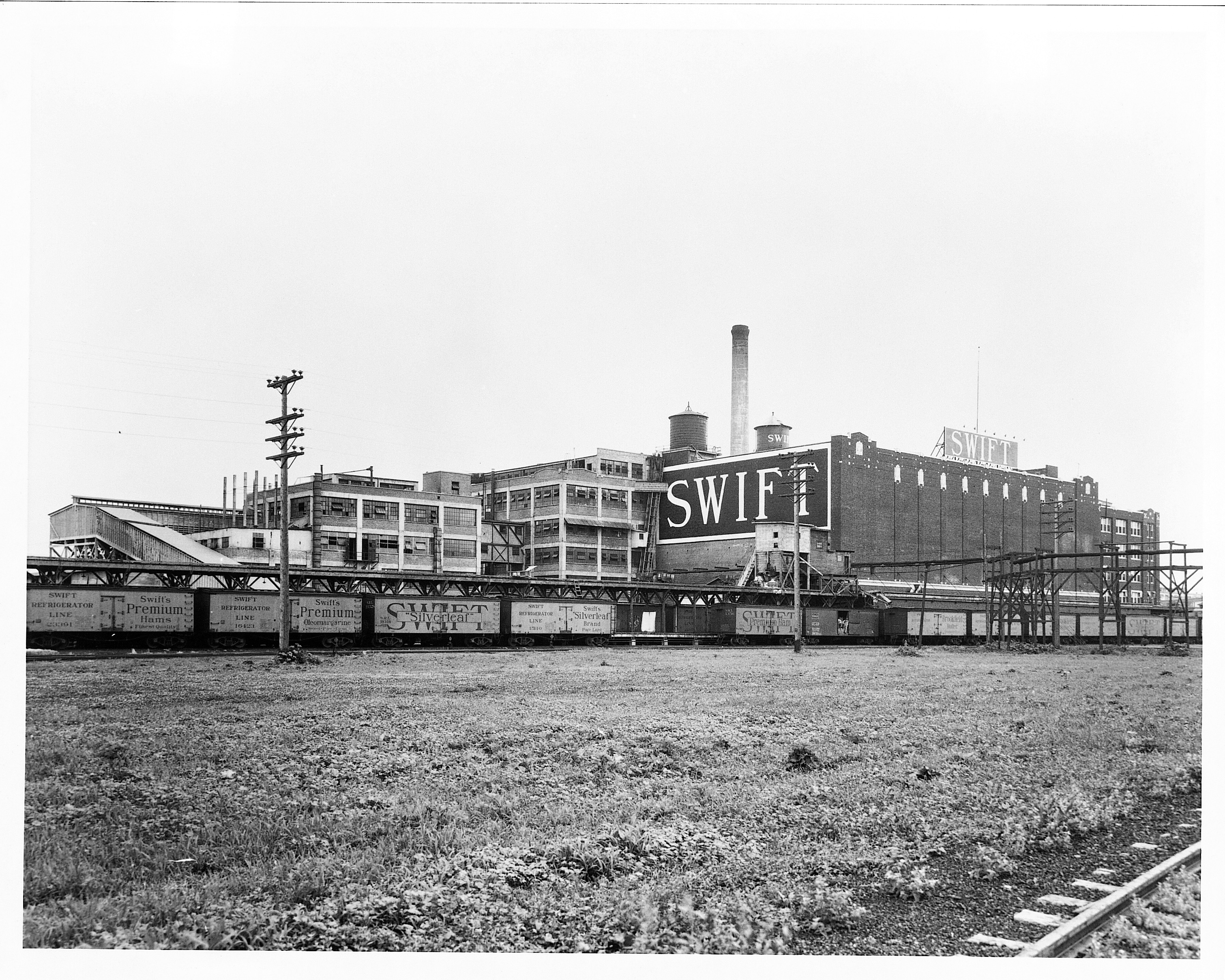 Swift Brands Sioux City, Iowa meat packing plant circa 1917. Swift & Company photo. Originally downloaded from